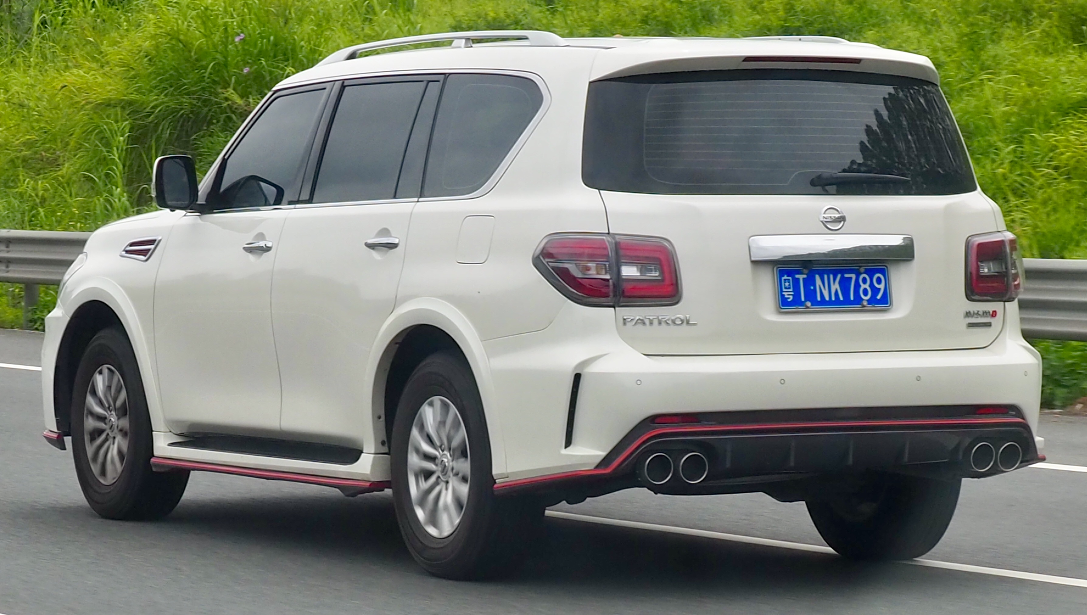 A 2018 Nissan Patrol Nismo photographed in Jiangmen, Guangdong province, China.